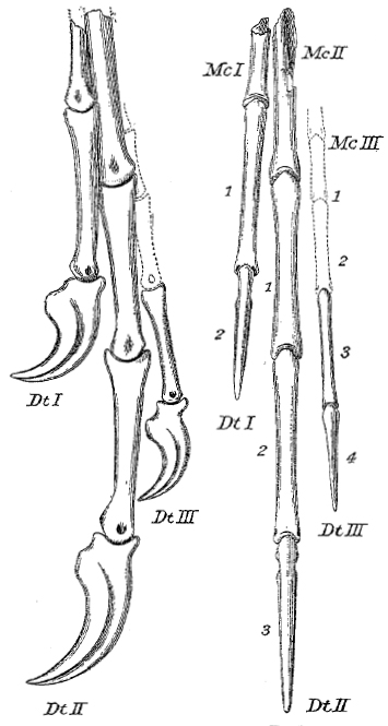 Left manus of Chirostenotes pergraclis. Type, No. 2367